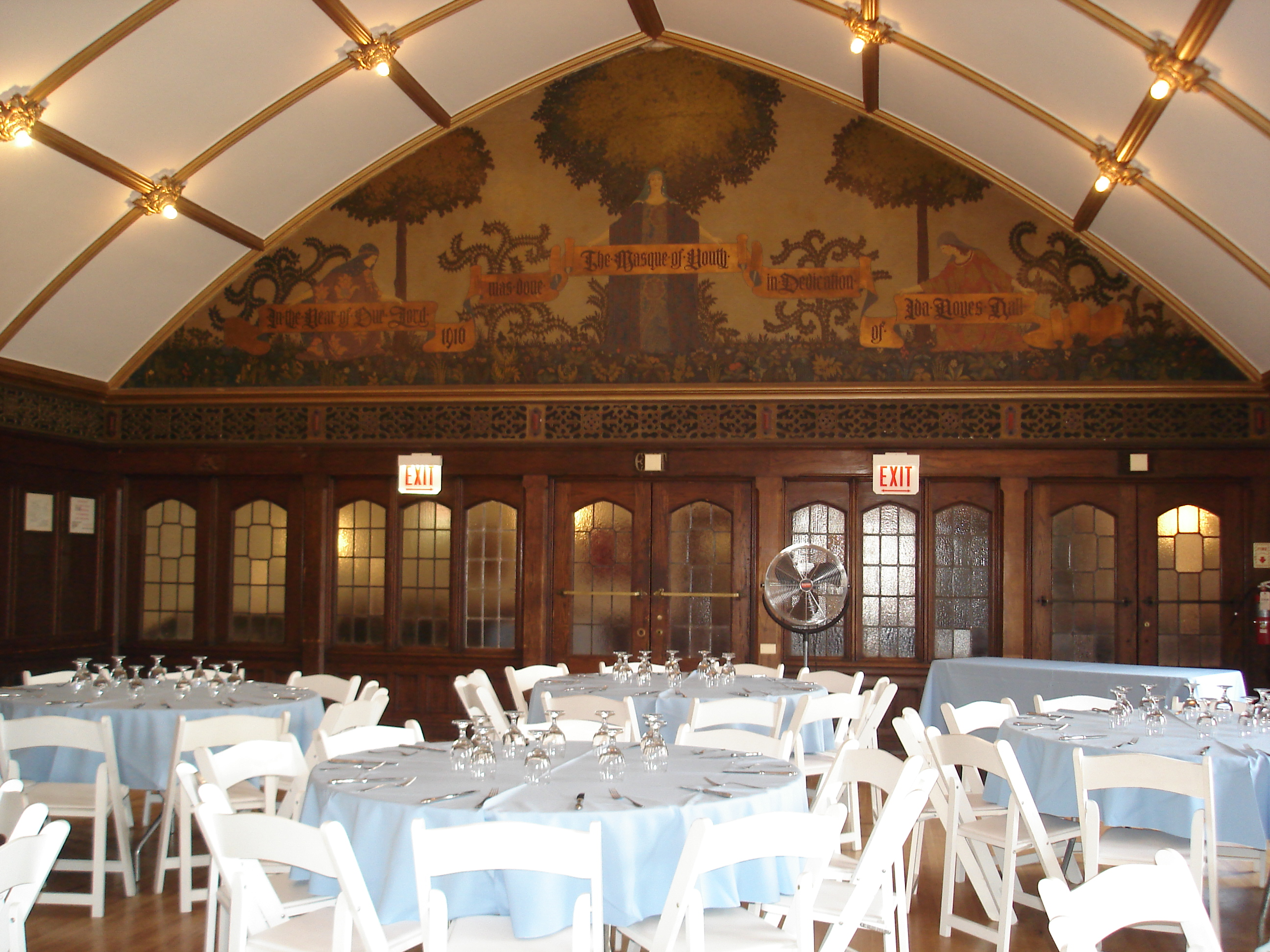 One wall of the mural, The Masque of Youth, located in Ida Noyes Hall (third-floor theater) on the campus of the University of Chicago.